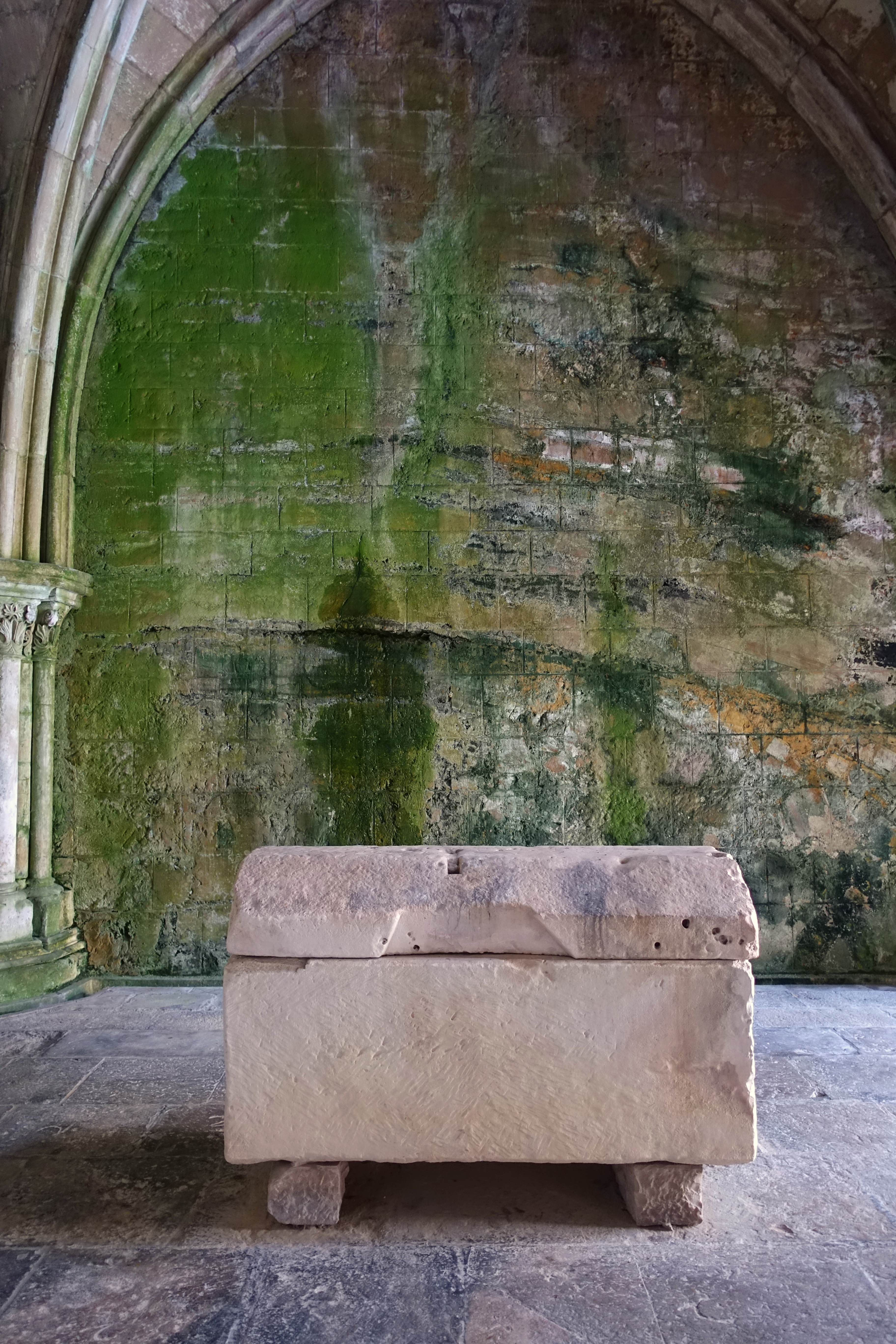 Tomb - Sé Velha - Coimbra, Portugal.